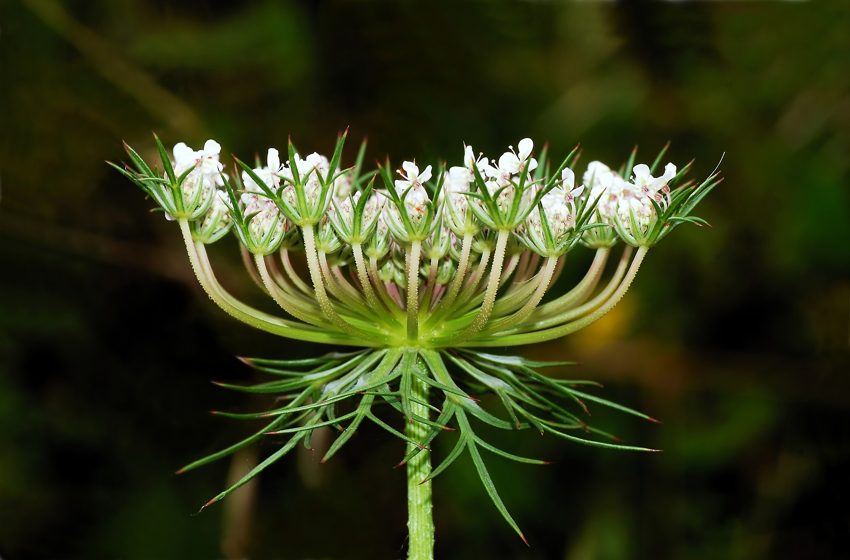 Wild Carrot, this umbel about 8cm diameter.